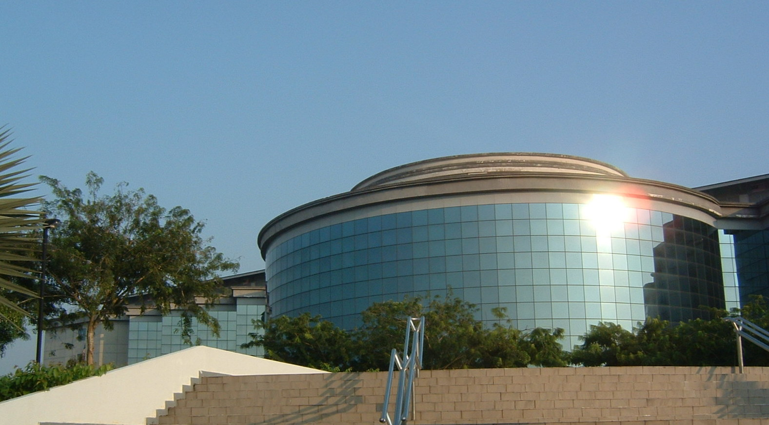 A photograph of the Universiti Tenaga Nasional Administration Building